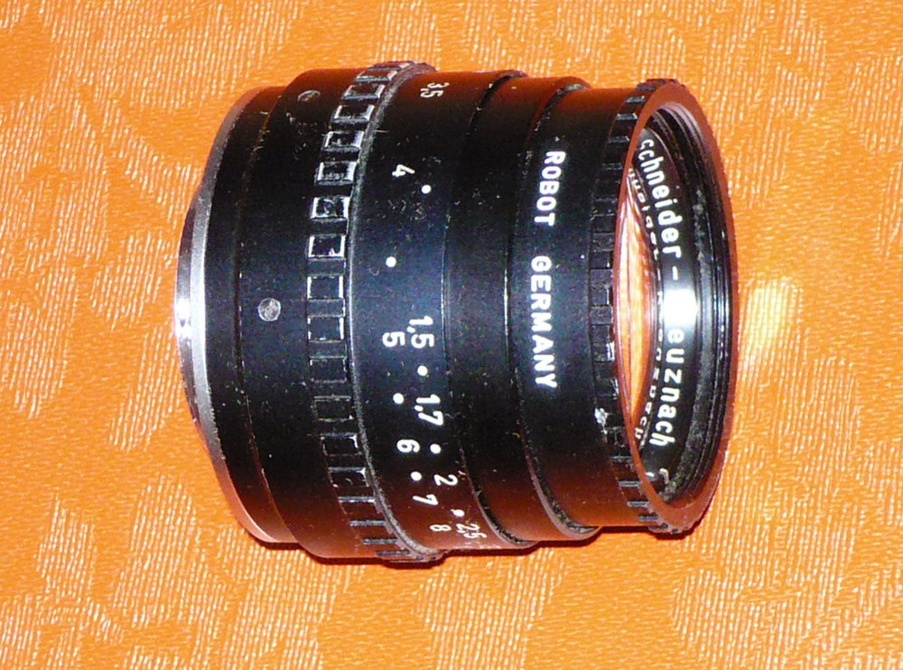 Robot 75mm lens